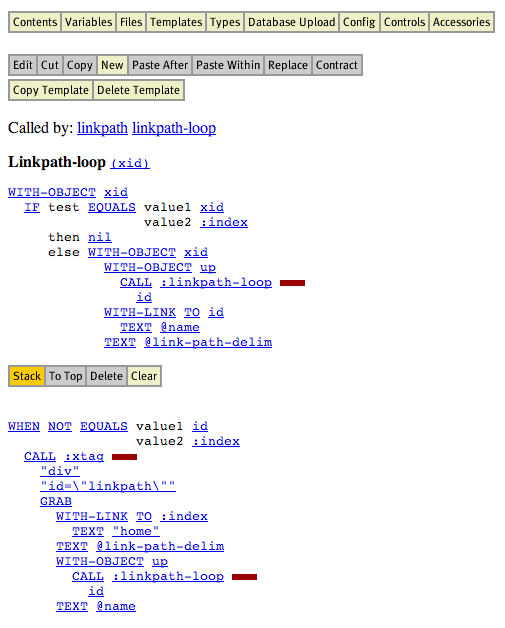 Example of RTML code being edited in Yahoo! Store's editor. The recursive template Linkpath-loop shown here will produce a "breadcrumbs"-style list of hyperlinks, from the index page to the current object (e.g. Home: Products: Accessories: Foo). Page templates don't call this directly; the non-recursive Linkpath template should be called instead. The Linkpath template's source is also shown in the image, on the clipboard (stack). The xtag template, which is called but not shown here, generates an HTML tag from three arguments (tag, attributes, contents). This is necessary because RTML by default cannot generate DIVs or many other modern tags. This template code, and the screenshot of it, was created by Wikipedia user:Leif, and may be considered public domain.